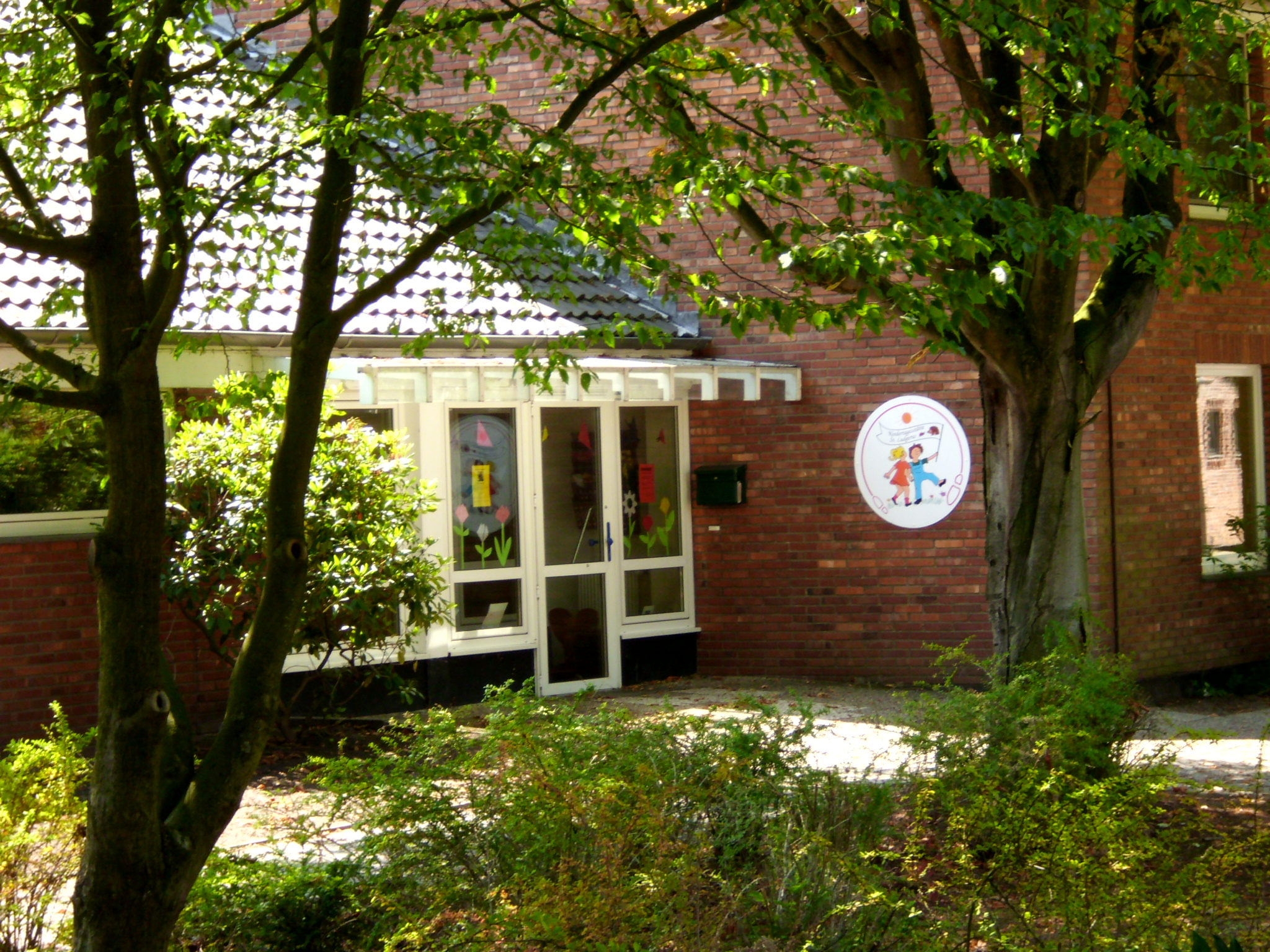 Kindergarten of Klausheide (Grafschaft Bentheim)